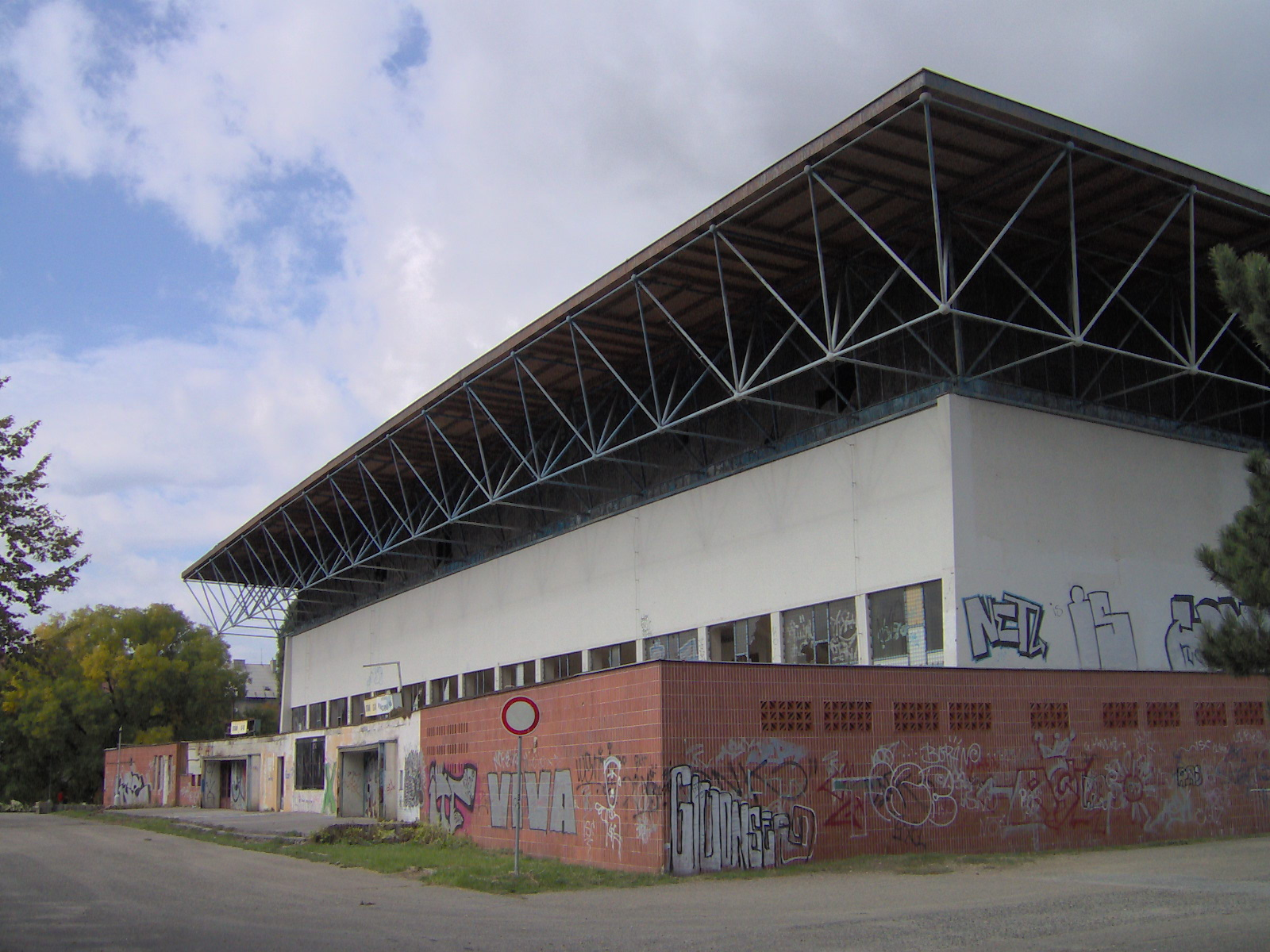 Ice hockey arena Za Lužánkami in Brno